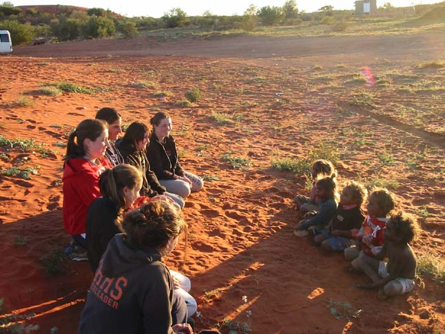 Teenagers on a Youth Travel Program with the Becket Chimney Corners YMCA volunteering in Australia